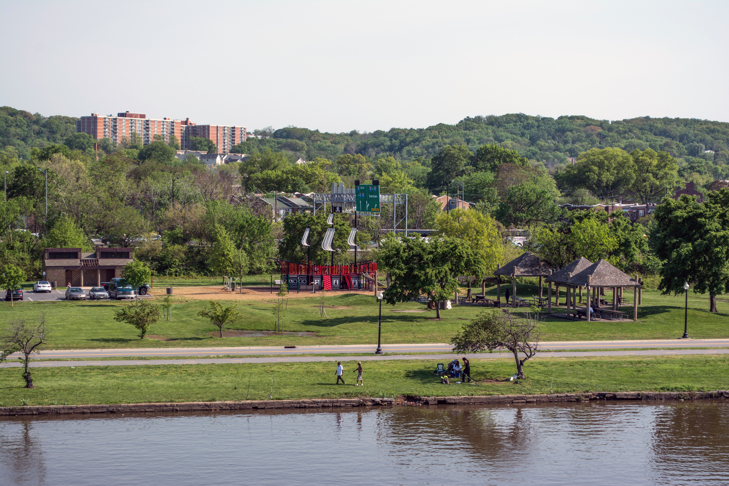 A playground in Section D of Anacostia Park in May 2014 in Washington, D.C., in the United States. The Anacostia River flows in the foreground. Also known as the "Anacostia Flats", this was the site of the encampment of the Bonus Army -- a group of penniless United States veterans -- in the summer of 1932. These veterans wanted early payment of a scheduled service bonus to help see them through the Great Depression. President Herbert Hoover ordered the Bonus Army dispersed. General Douglas MacArthur crossed the Navy Yard Bridge and attacked the encampment at night with mounted cavalry, tanks, machine guns, and flamethrowers. Several people were killed. The large building on the hill behind is the Marbury Plaza Apartments, the only high-rise apartment building east of the Anacostia River.